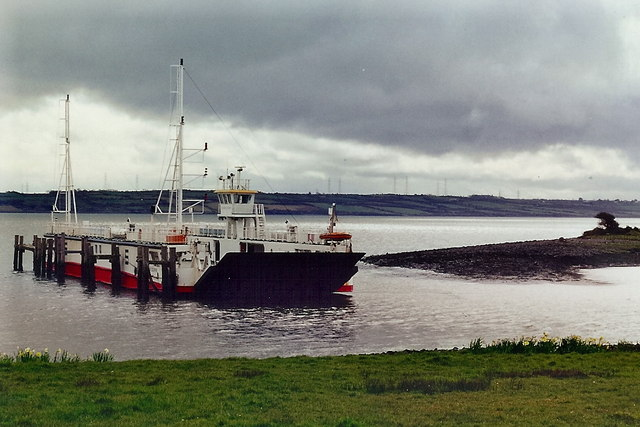 Tarbert - Ferry from Killimer - N67